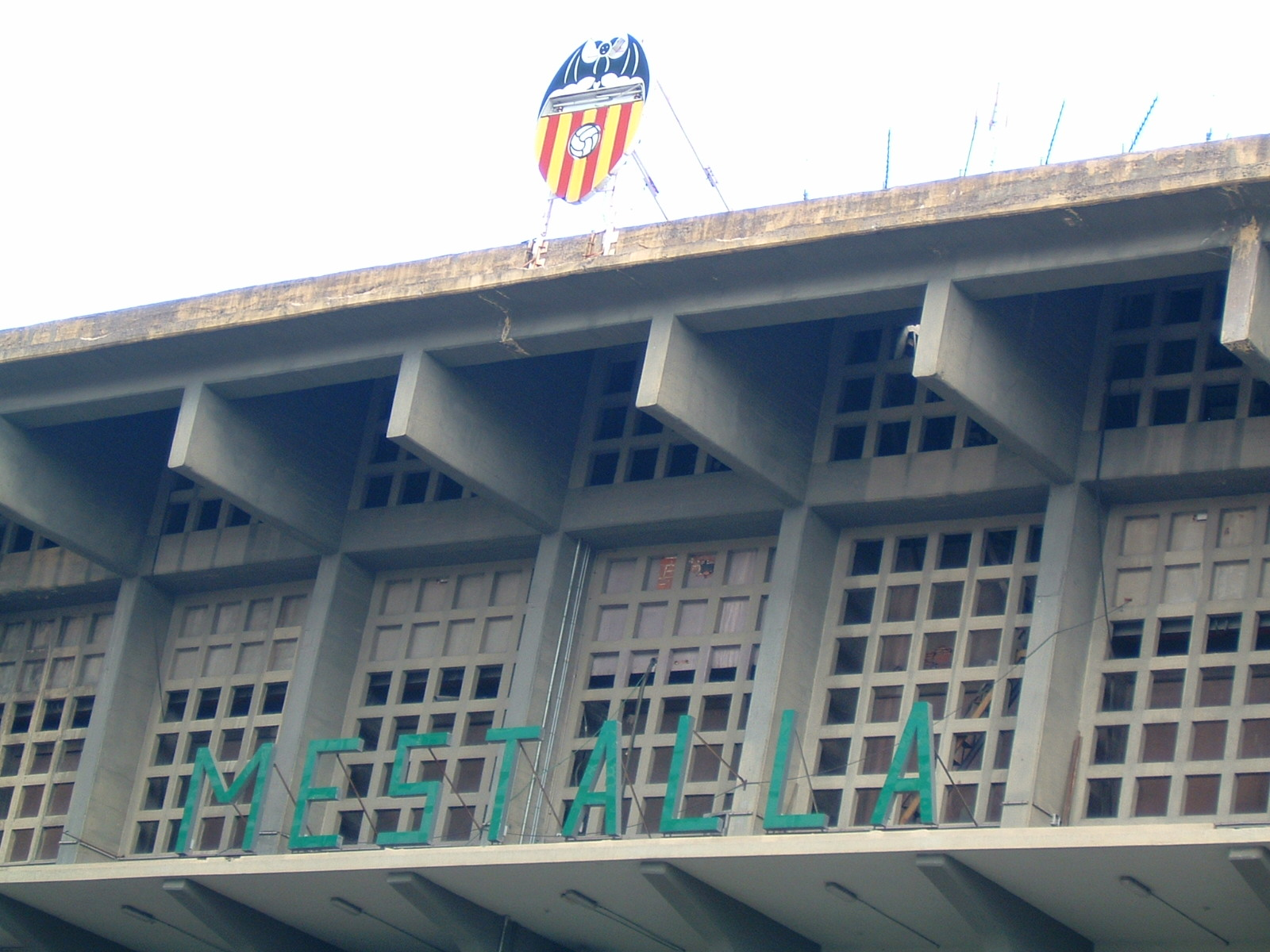 Personal picture of Mestalla stadium in Valencia in Spain.